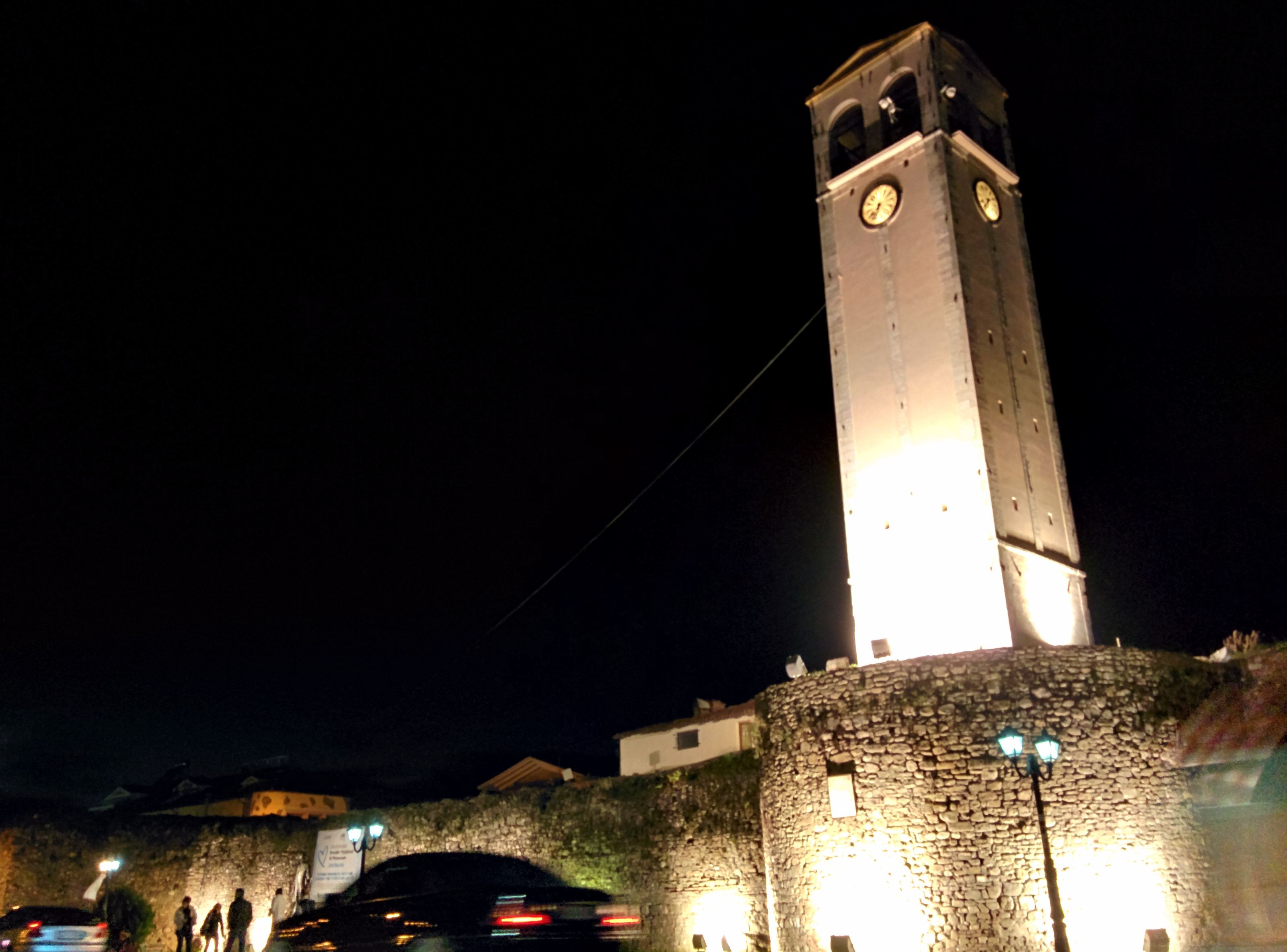 Clock tower within the city walls of Elbasan